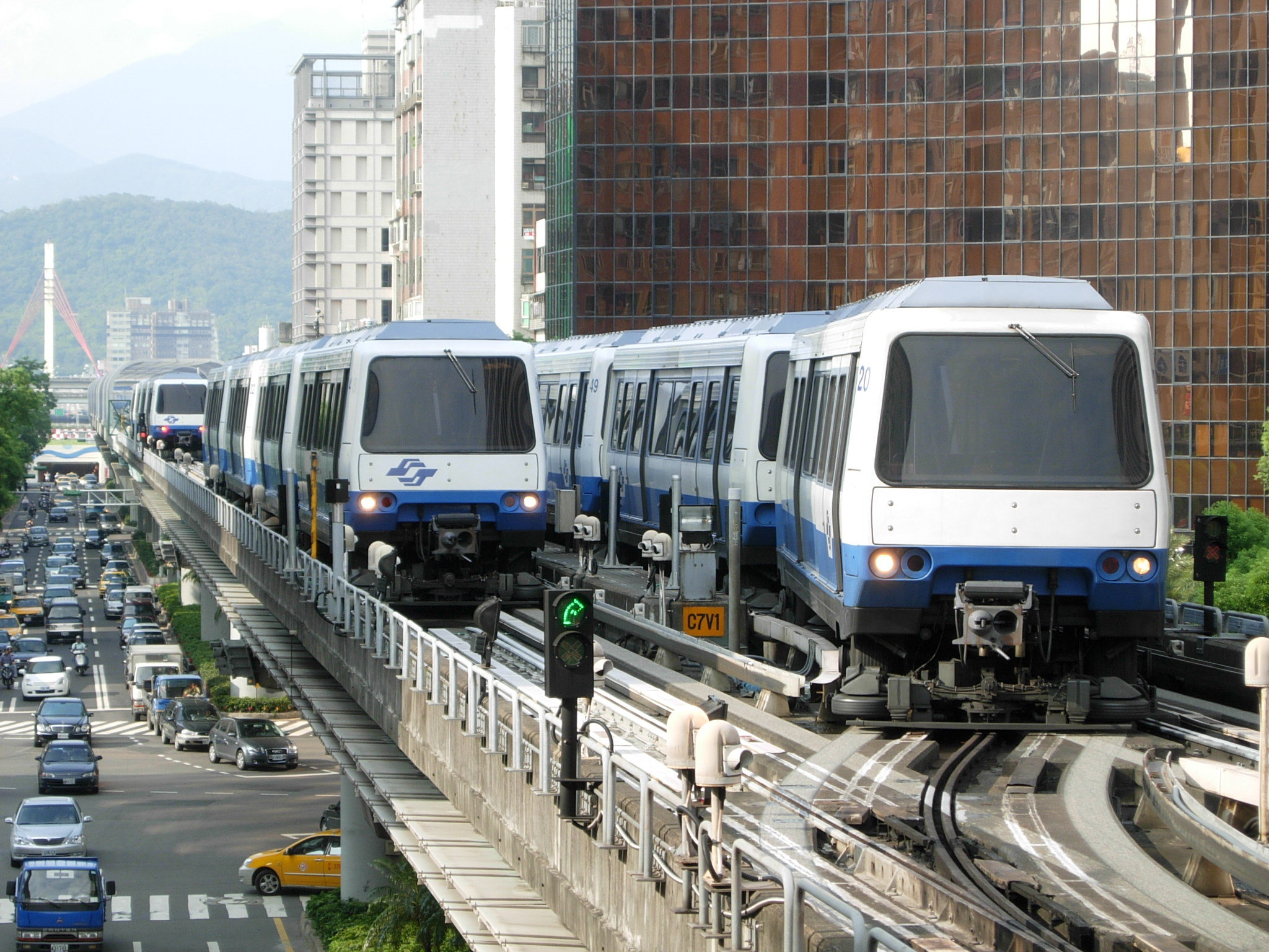 Overrun on the north side of Taipei MRT Zhongshan Junior High School Station.